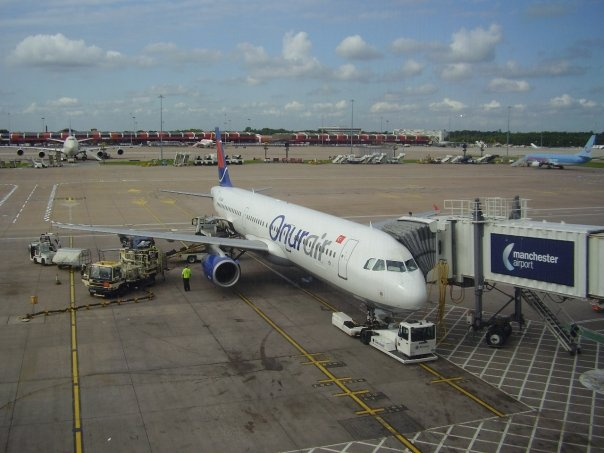 picture taken of onur air plane from manchester airport t2